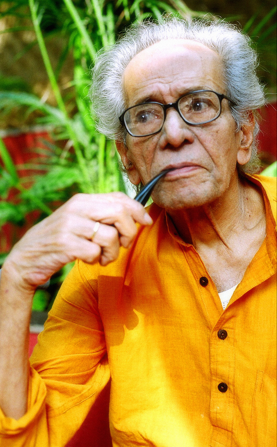 Habib Tanvir was one of the most prominent Indian Hindi, Urdu playwright, theater director, poet & actor.